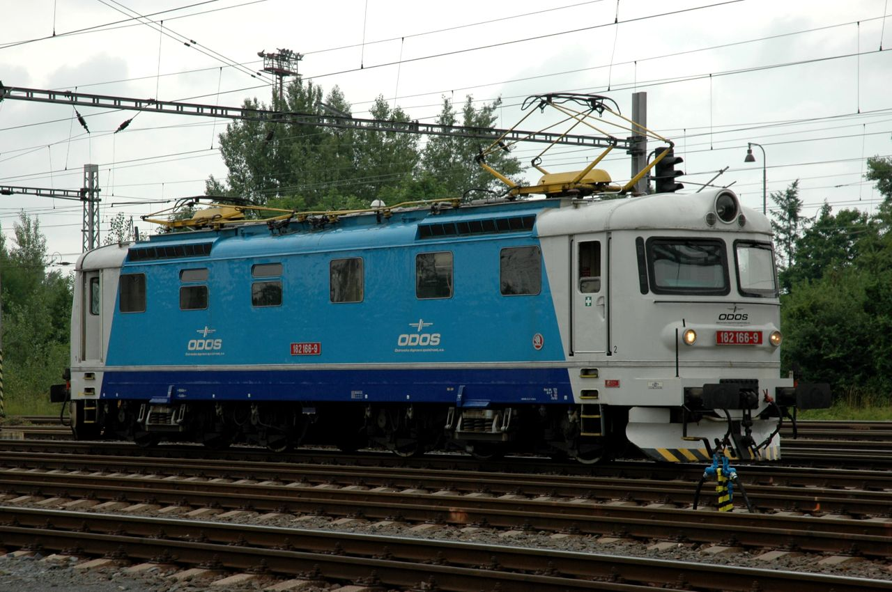 Locomotive 182.166 of ODOS railway operator, station Ostrava-Kunčice, Czech Republic